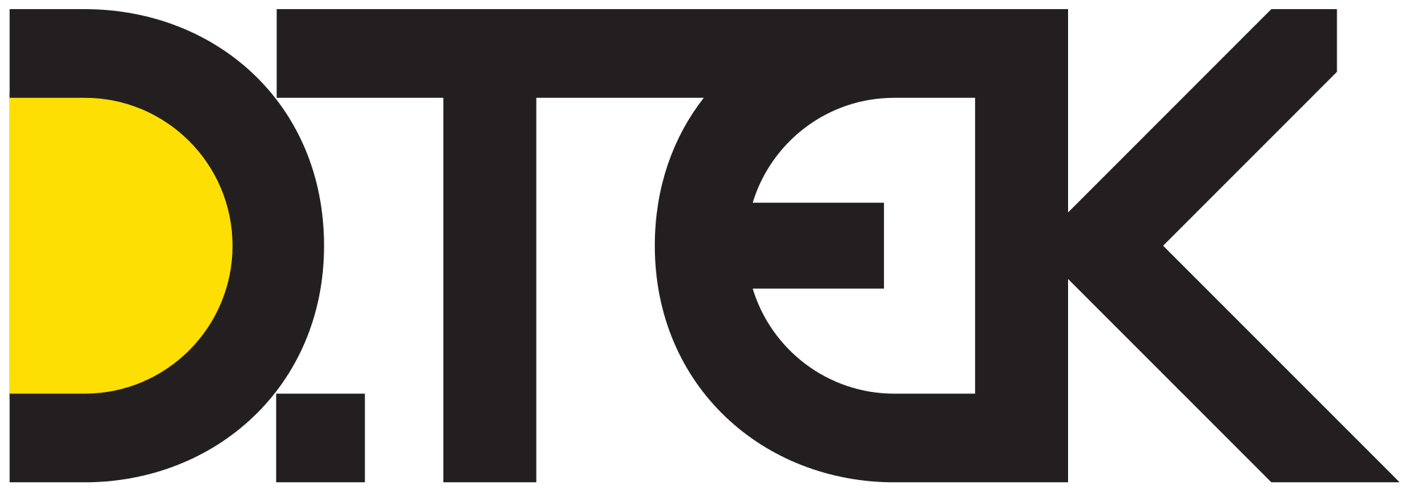 Dtek logo